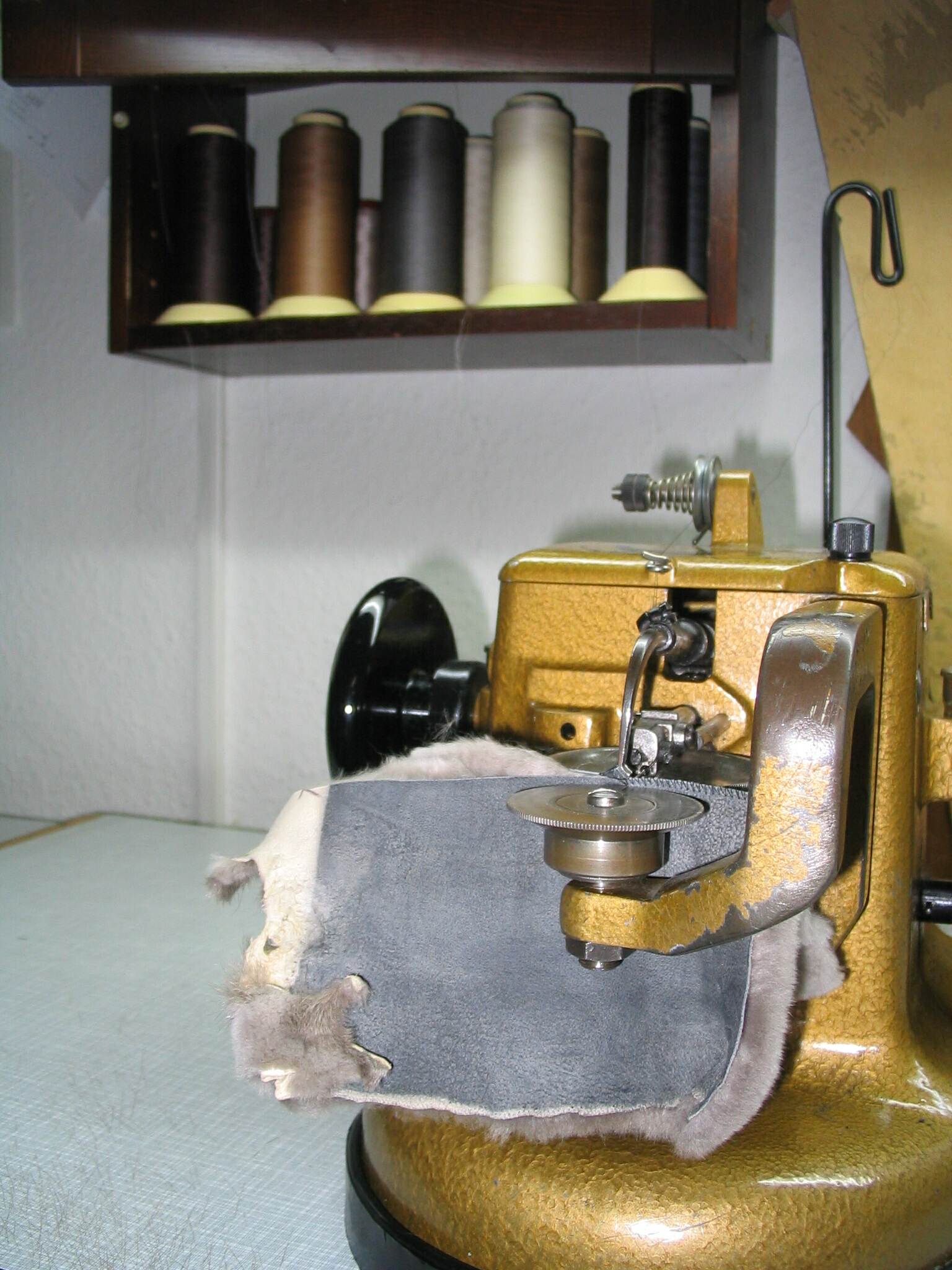 Furrier's tools: Fur sewing machine